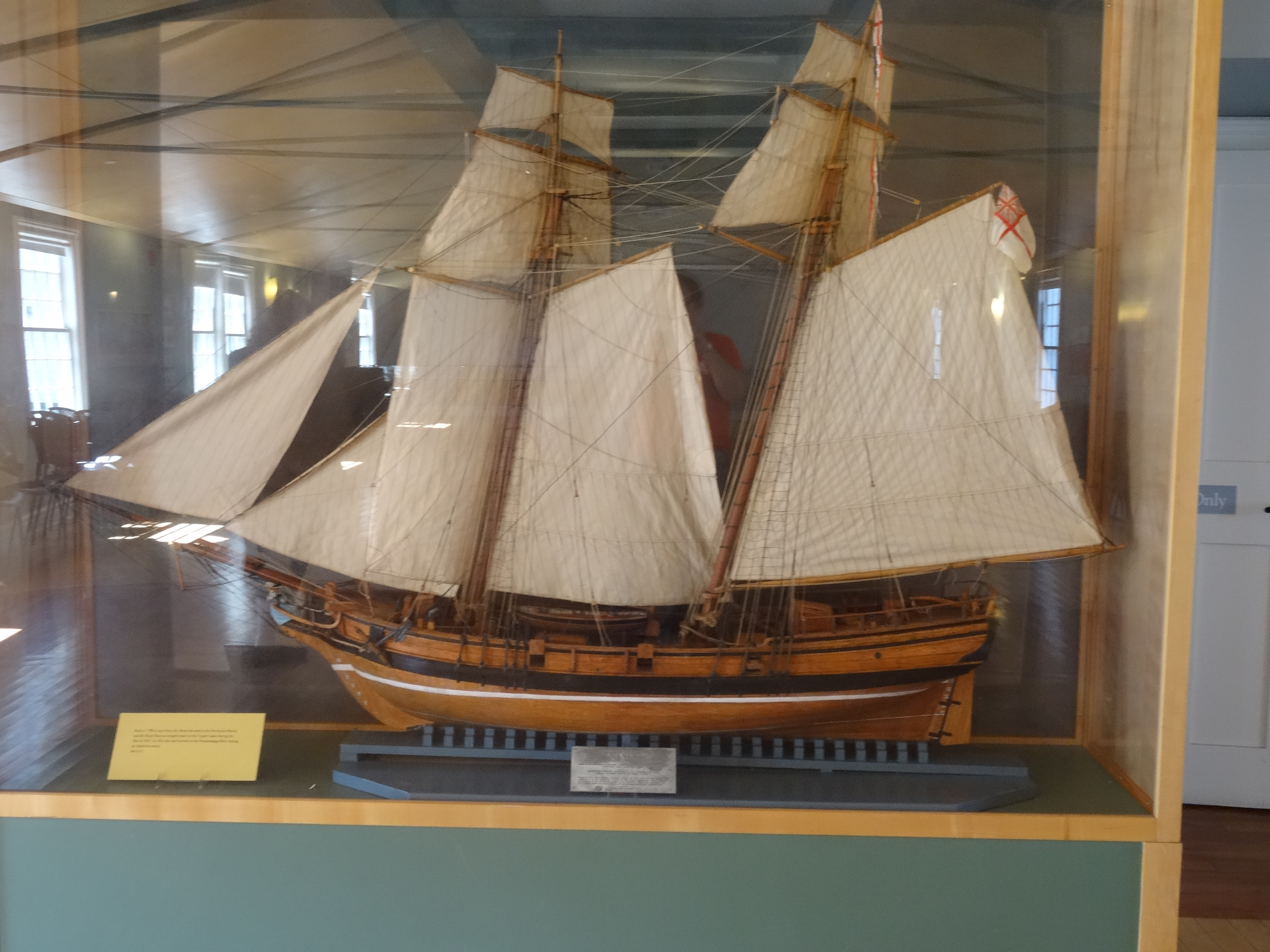 A model of HMS Nancy, an important vessel during the War of 1812, 2015 09 10.JPG